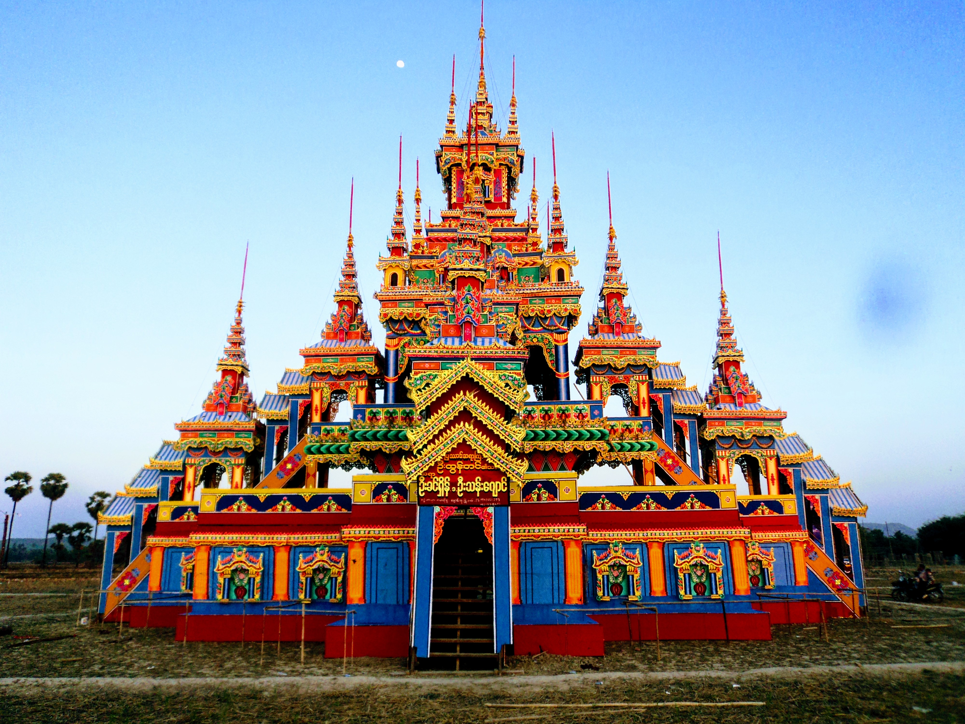 Funeral Temporary Building with a tiered of Burmese Buddhist Monk, Pa-Auk Village, Mon State မြန်မာဘာသာ: သံဃာတော် ဈာပန (ဘုန်းကြီးပျံ) ယာယီ ပြာသာဒ် အရှေ့ဘက်ပုံ၊ ဖားအောက်ကျေးရွာ၊ မွန်ပြည်နယ်။